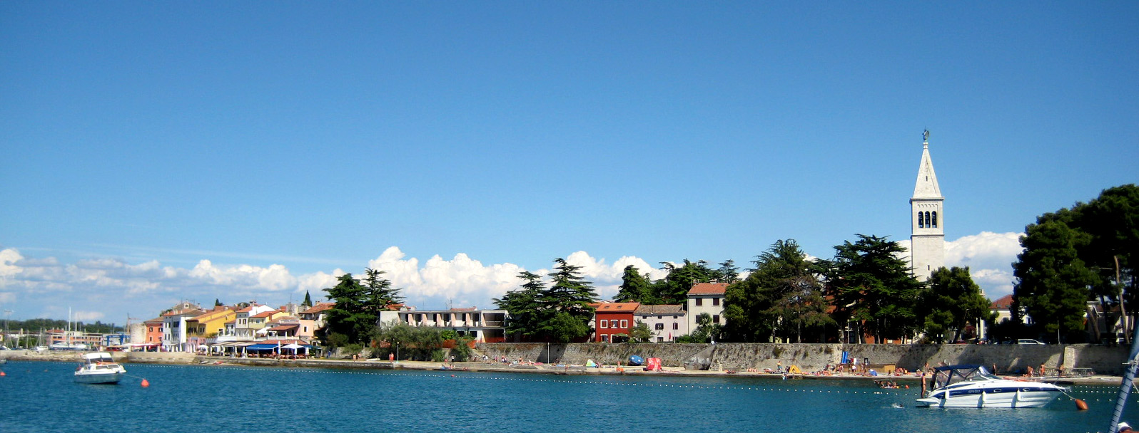 Novigrad, coastal town in Istria, Croatia